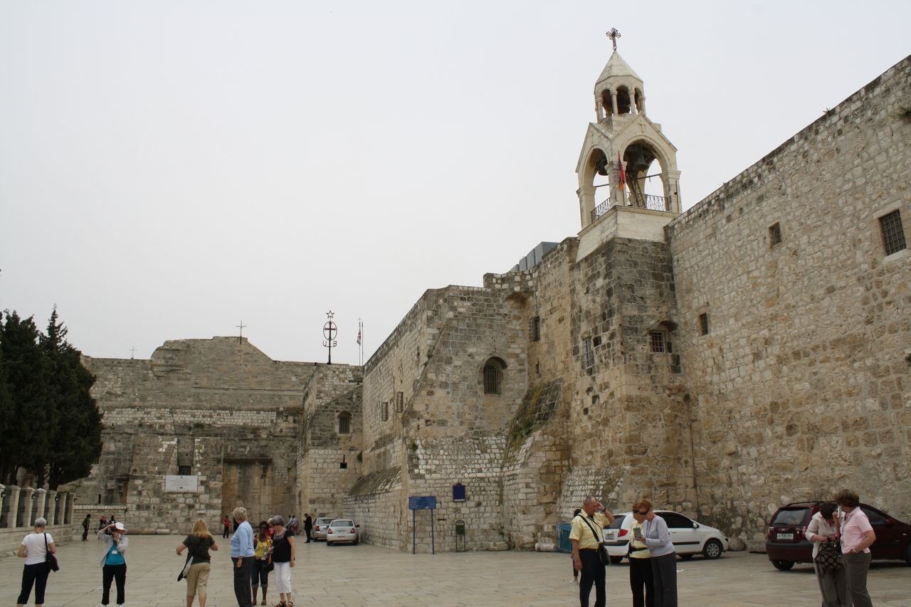 Betlehem Church of the Nativity.